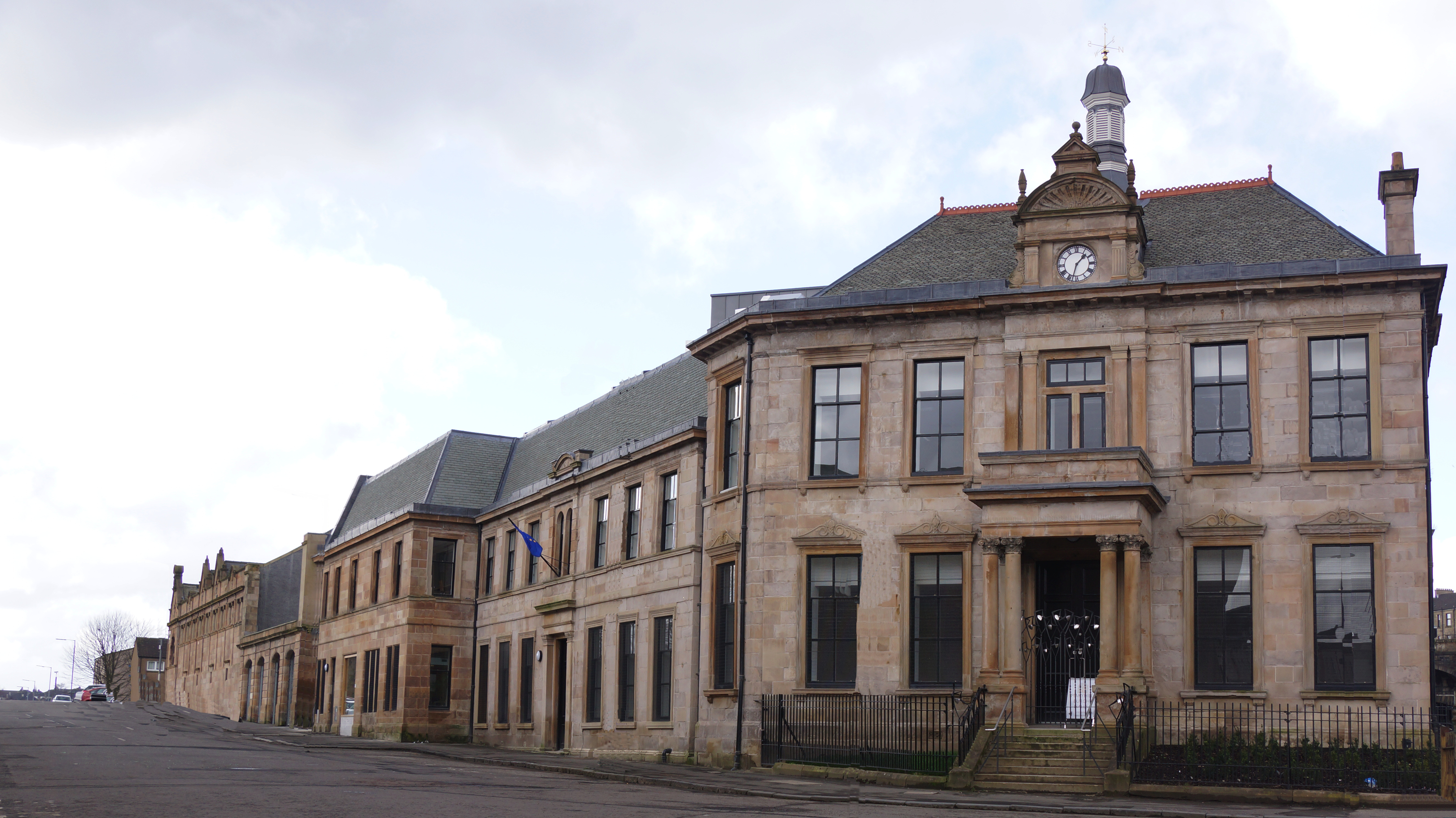 Front entrance of Burgh Halls This file was uploaded as part of a GLAMWiki partnership with Maryhill Burgh Halls This tag does not indicate the copyright status of the attached work. A normal copyright tag is still required. See Commons:Licensing for more information.